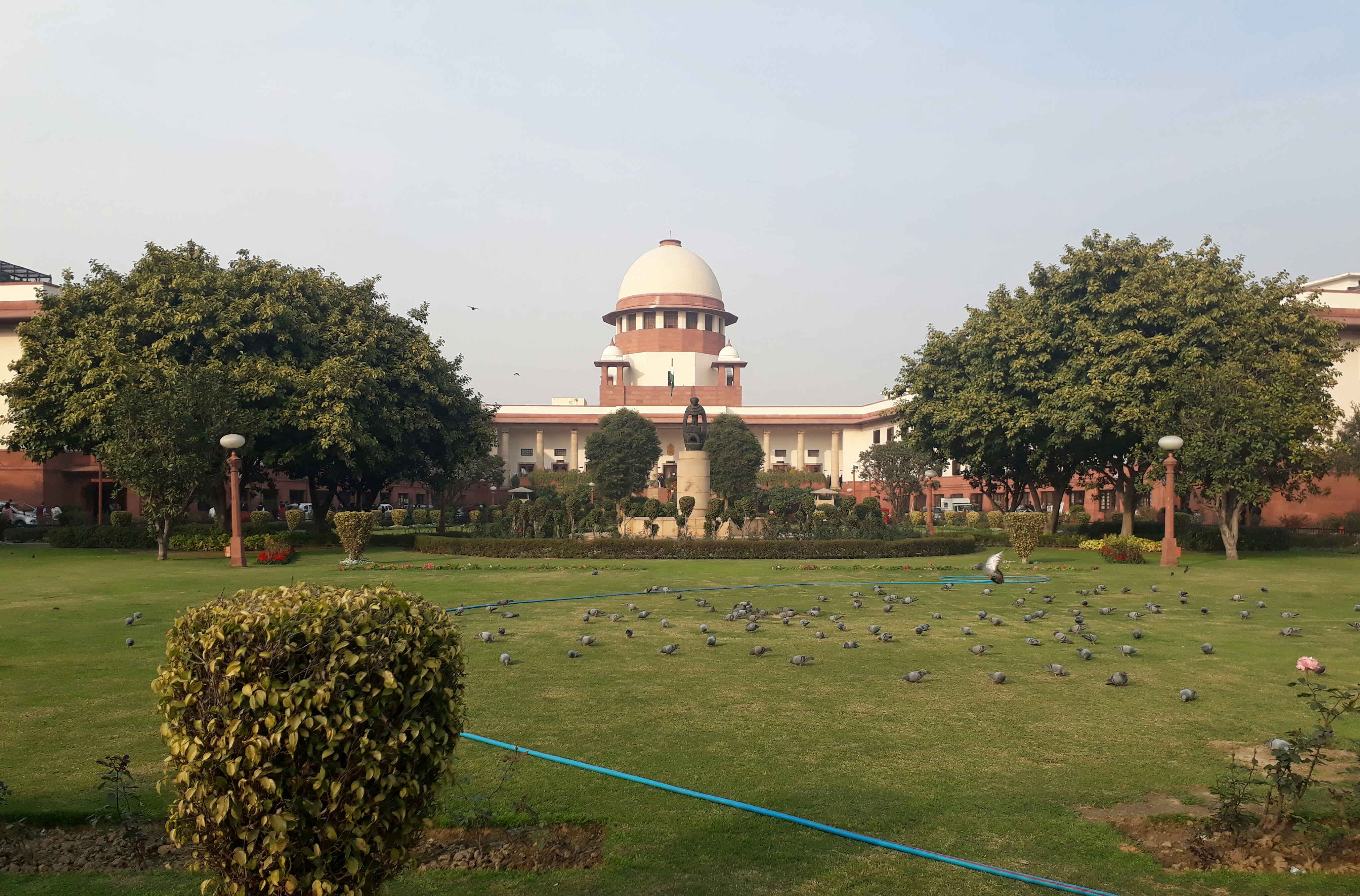 The Supreme Court, New Delhi